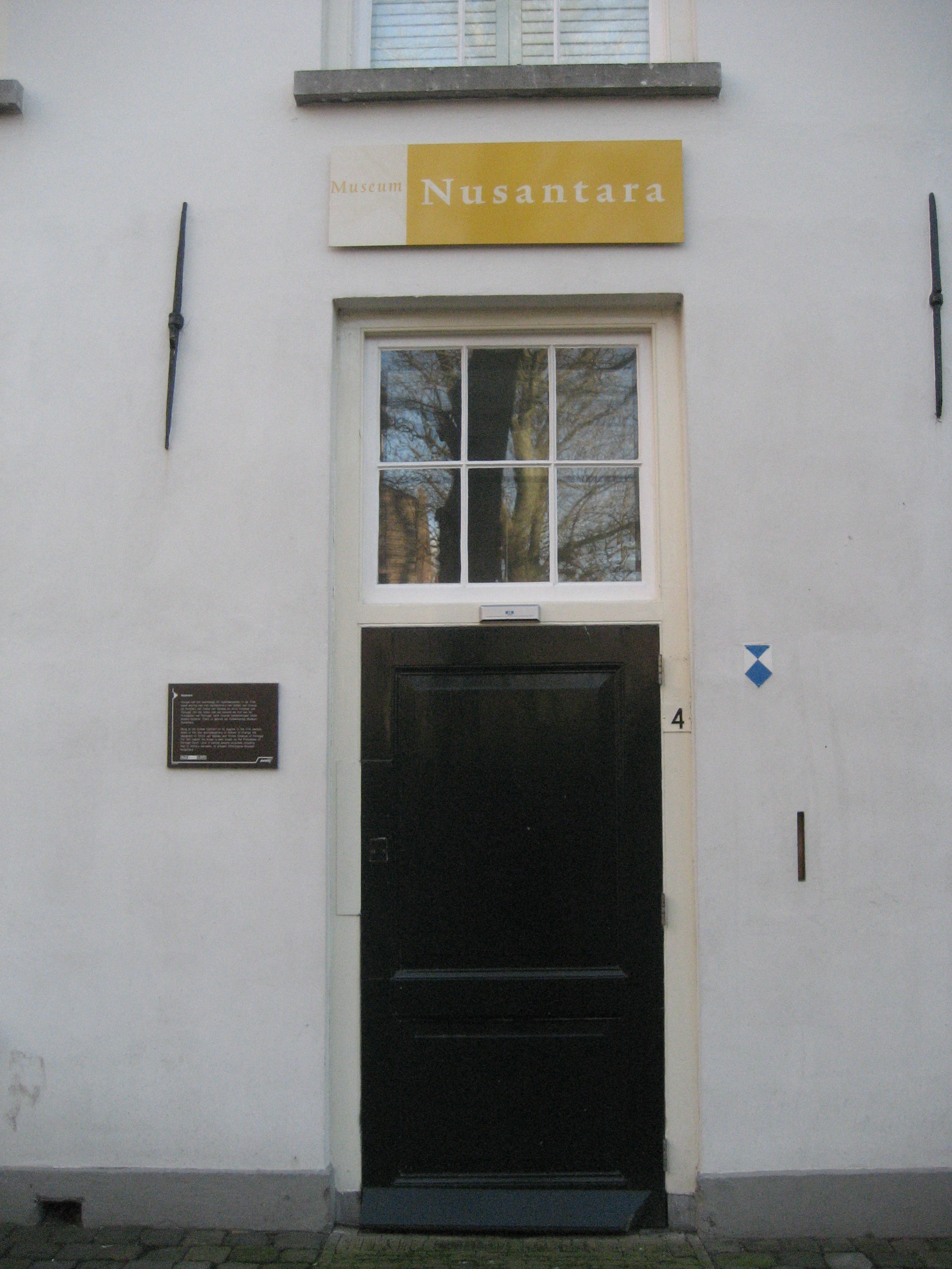 Museum Nusantara in Delft (The Netherlands). (About art and culture of Indonesia)